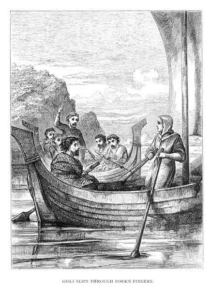 Gisli slips through Bork's fingers, from Gísla saga (1866 English translation by George W. DaSent)